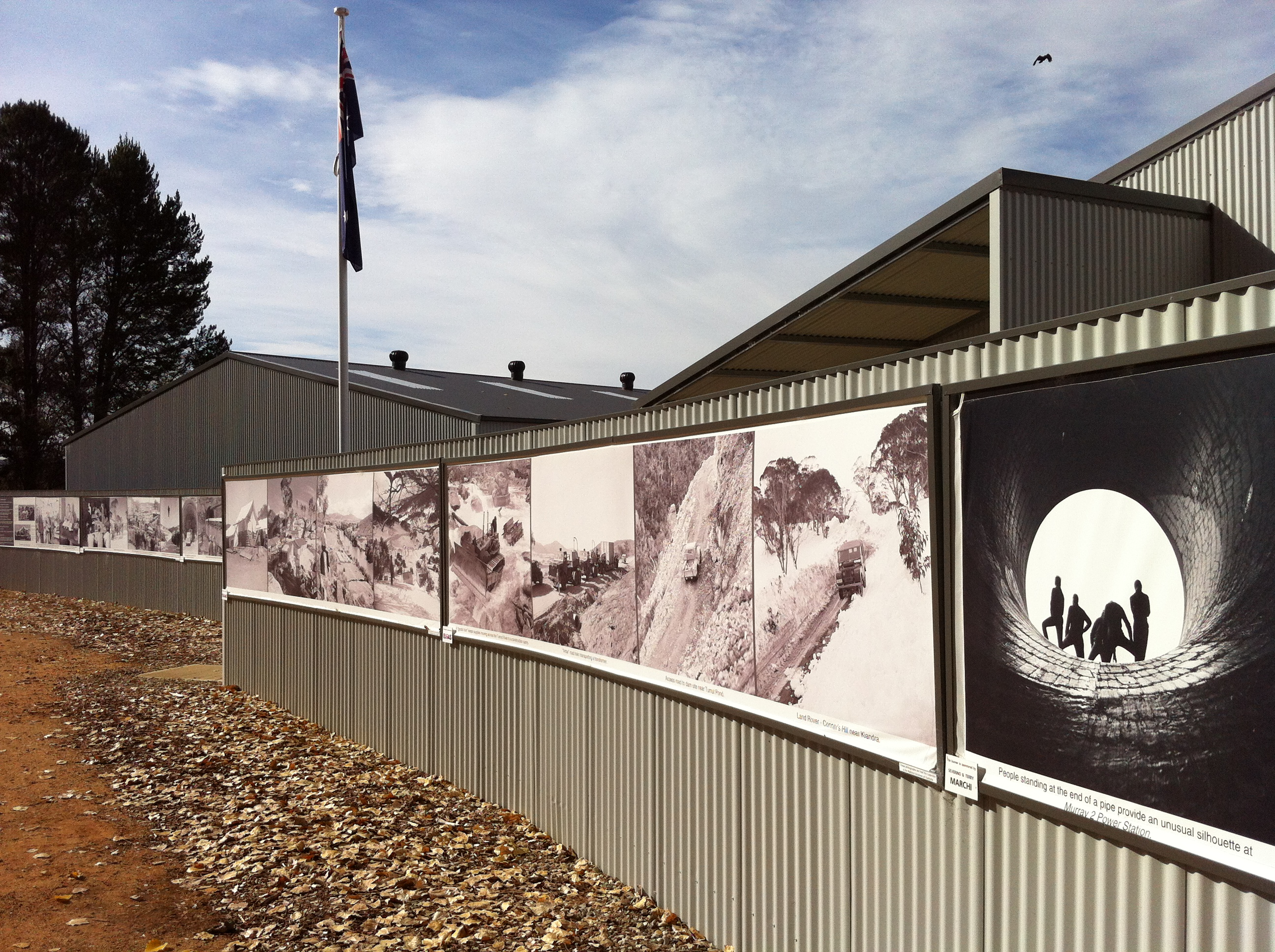 Picture mural at the Snowy Scheme Museum, Adaminaby NSW.